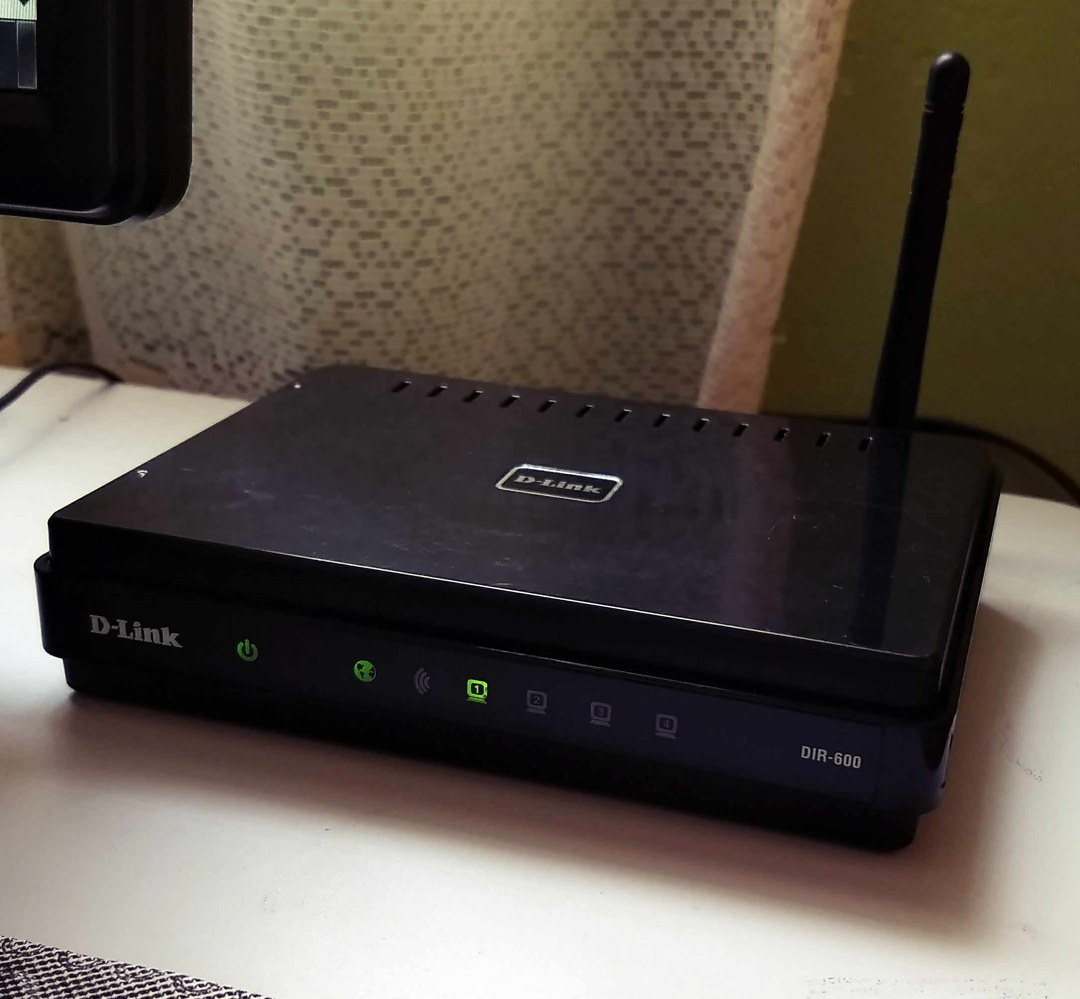 D-Link DIR-600 Installed in my network house, using the Movistar's Network and WiFi off